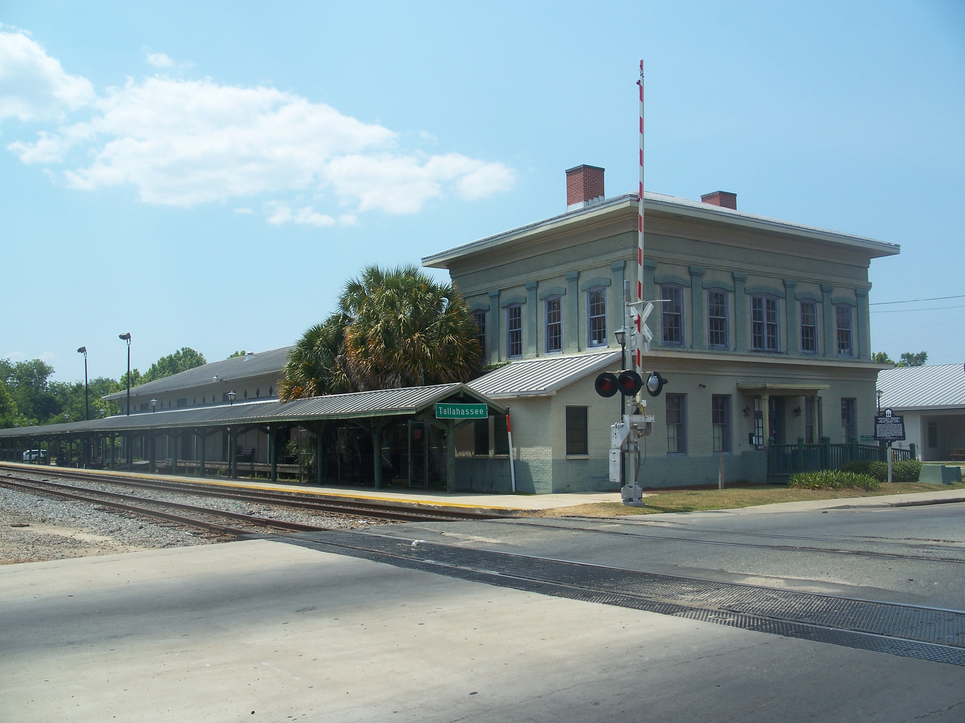 Tallahassee, Florida: Tallahassee (Amtrak station) (former Jacksonville, Pensacola and Mobile Railroad Company Freight Depot)